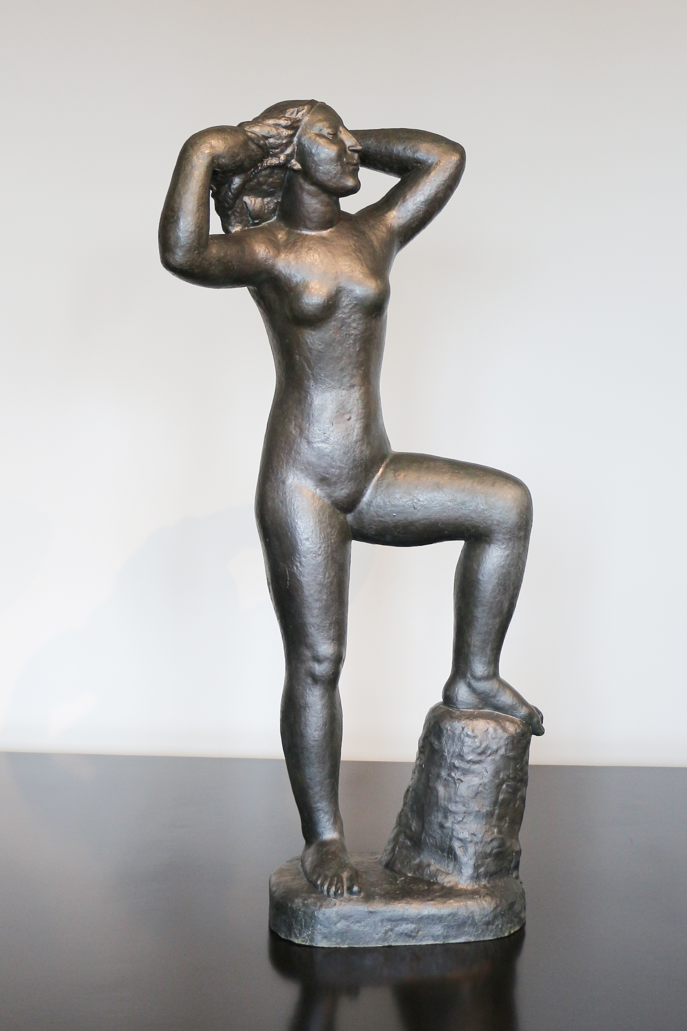 Sculpture "Dancer" in Ivan Meštrović Gallery, Split, Croatia